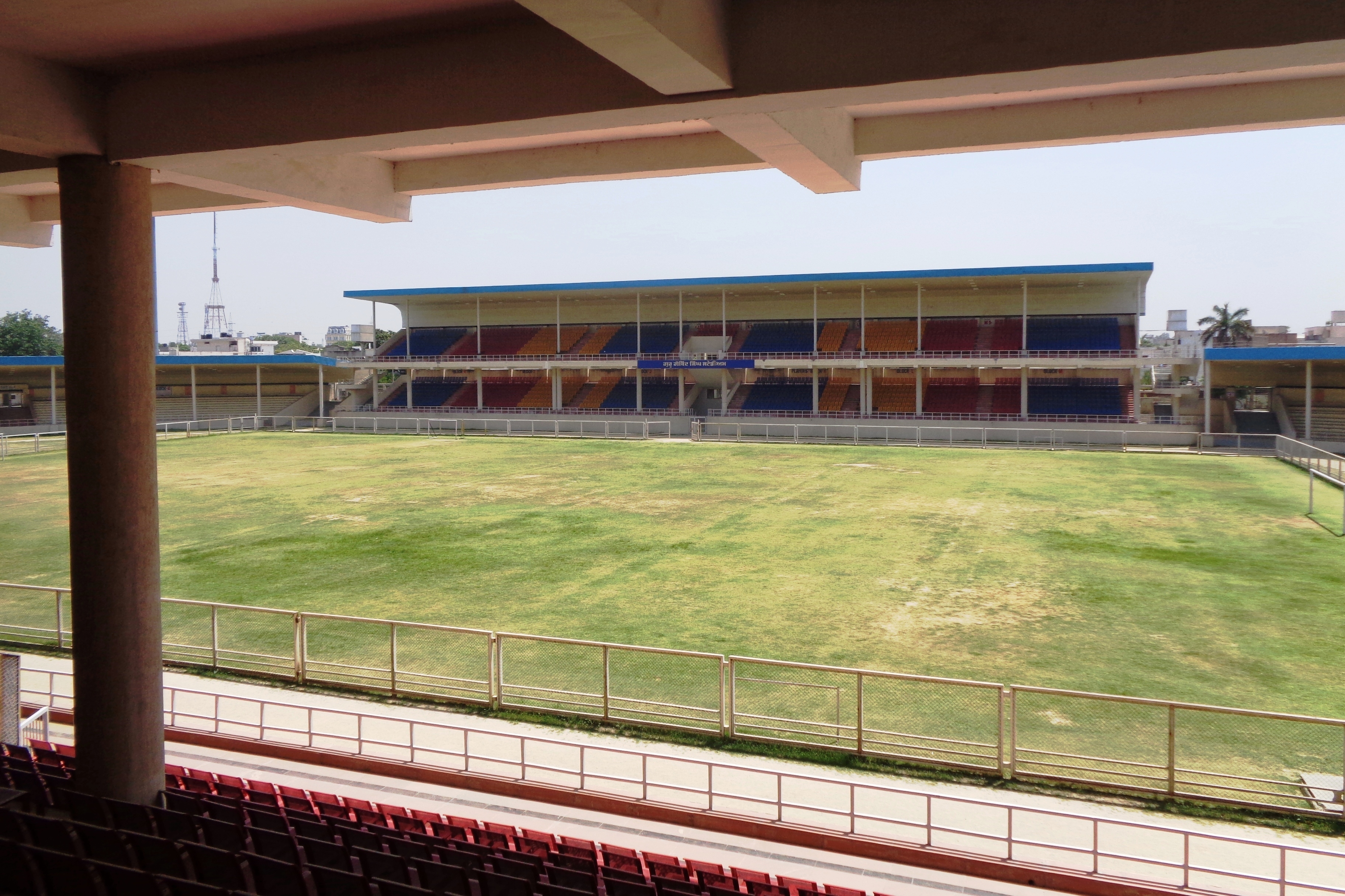 GURU GOBIND SINGH STADIUM, JALANDHAR. VIEW OF PAVILION 2 FROM PAVILION 1